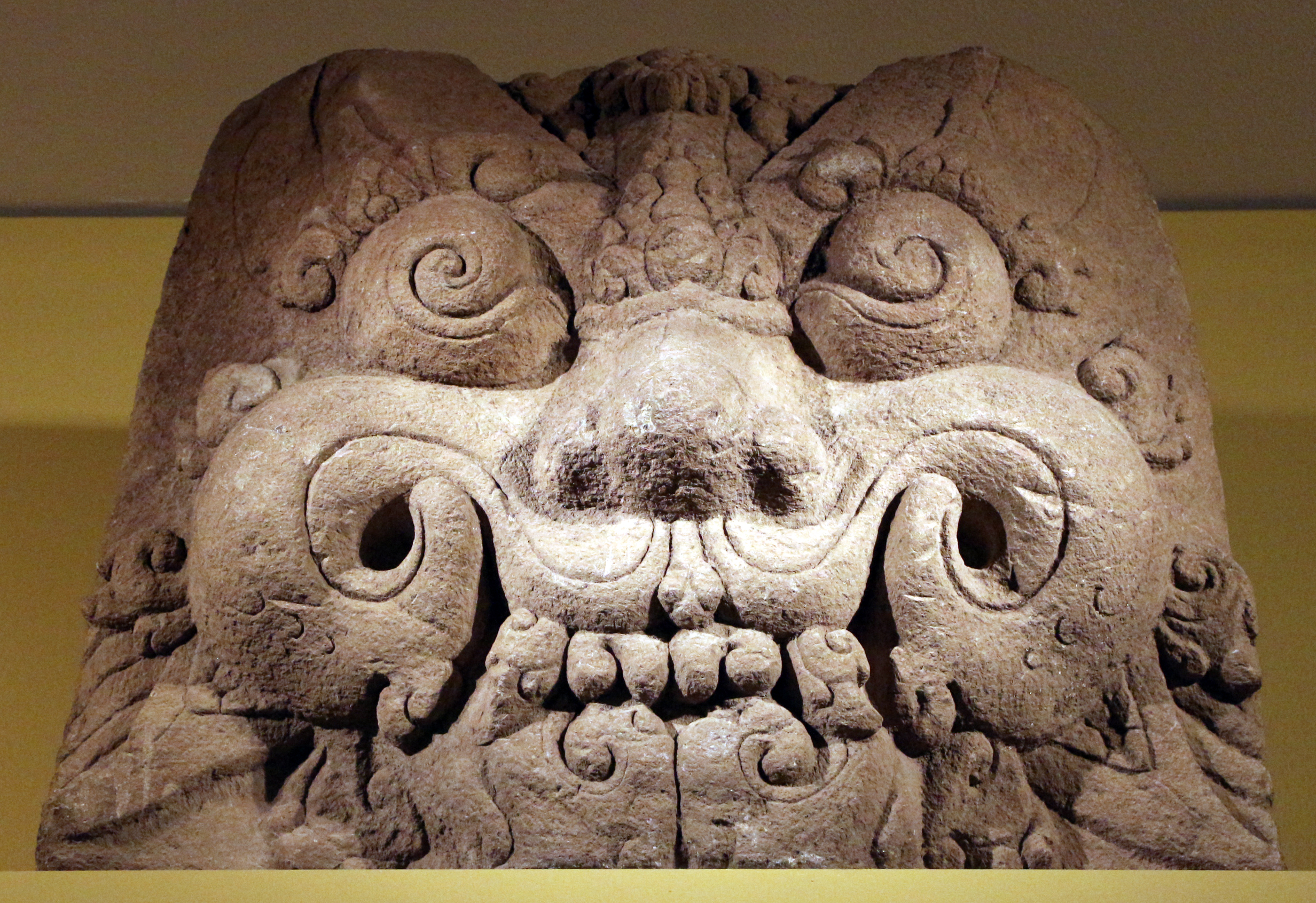 Asian art in the Indianapolis Museum of Art